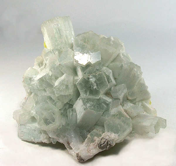 Aragonite, Sulphur Locality: Agrigento Province, Sicily, Italy (Locality at ) From a deposit long since closed, I think this is an outstanding aragonite from a classic find of the early 1970s. On a crust of massive aragonite with minor sulfur are numerous colorless, twinned, lustrous, gemmy aragonite crystals up to 2.5 cm in length. The basal pinacoids (flat faces atop) are gemmier than the prism faces which can be opaque and chalky white in places, creating a shocking contrast . These are highly fluorescent 9.6 x 9.4 x 3.6 cm